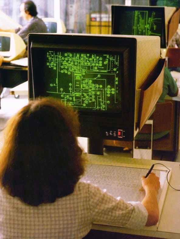 A Computervision Inc. CADDS3 computer-aided design system being used to create a piping and instrumentation diagram in a training lab, circa 1979. The display incorporated a Tektronix 19" storage tube. The graphics tablet was used for drawing and to enter command shortcuts. The ADM-3 terminals in left background were used to enter commands.